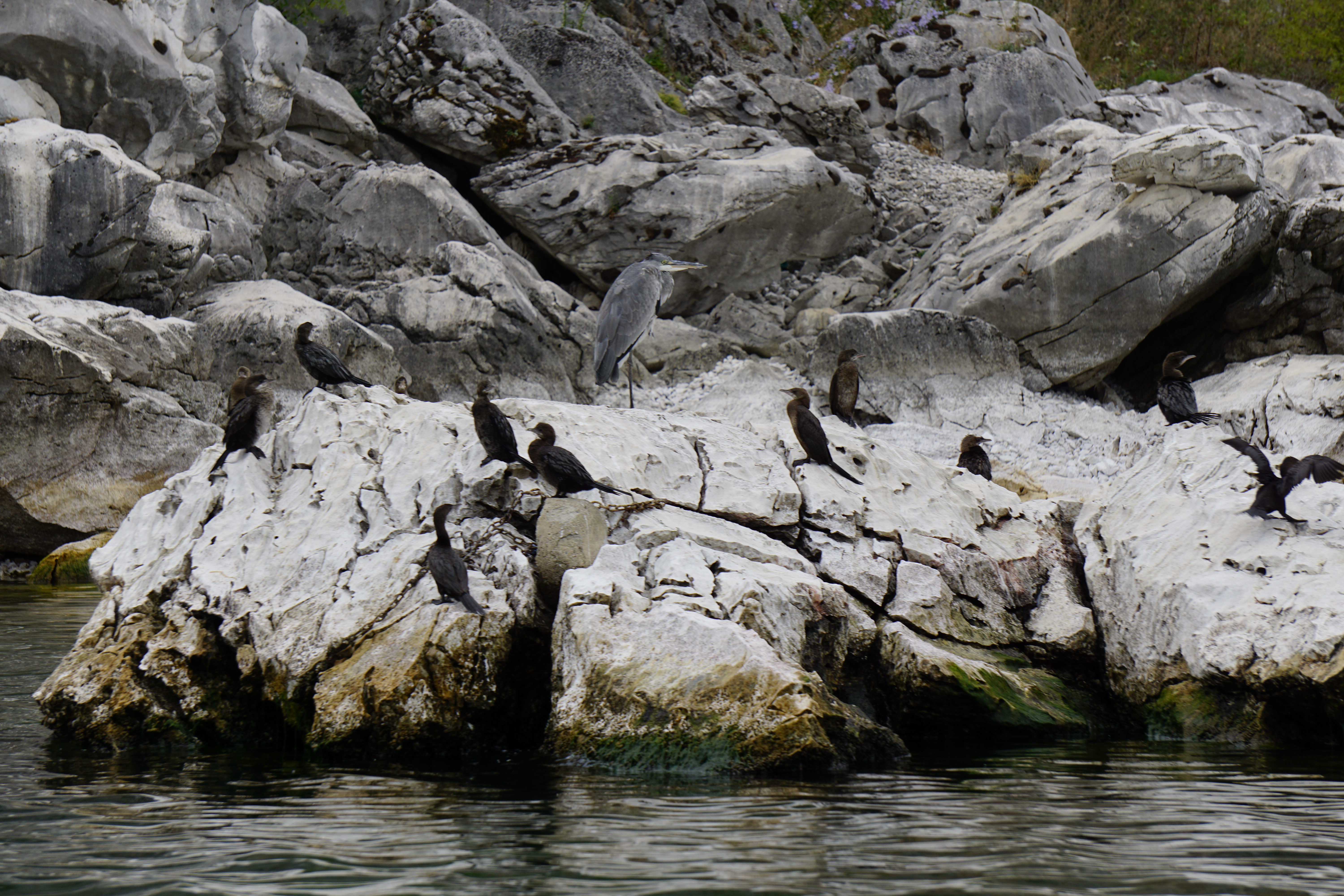 This is a photography of Natura 2000 protected area with ID GR1340001